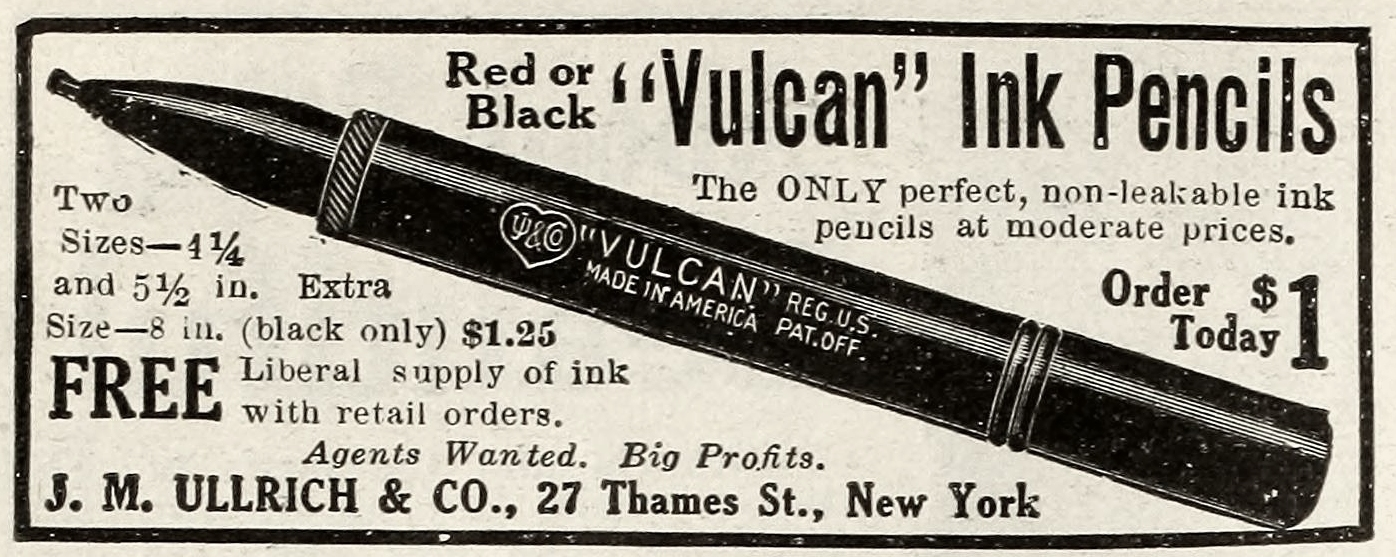 "Vulcan Ink Pencil" advertisement in Motion Picture Magazine, October 1915